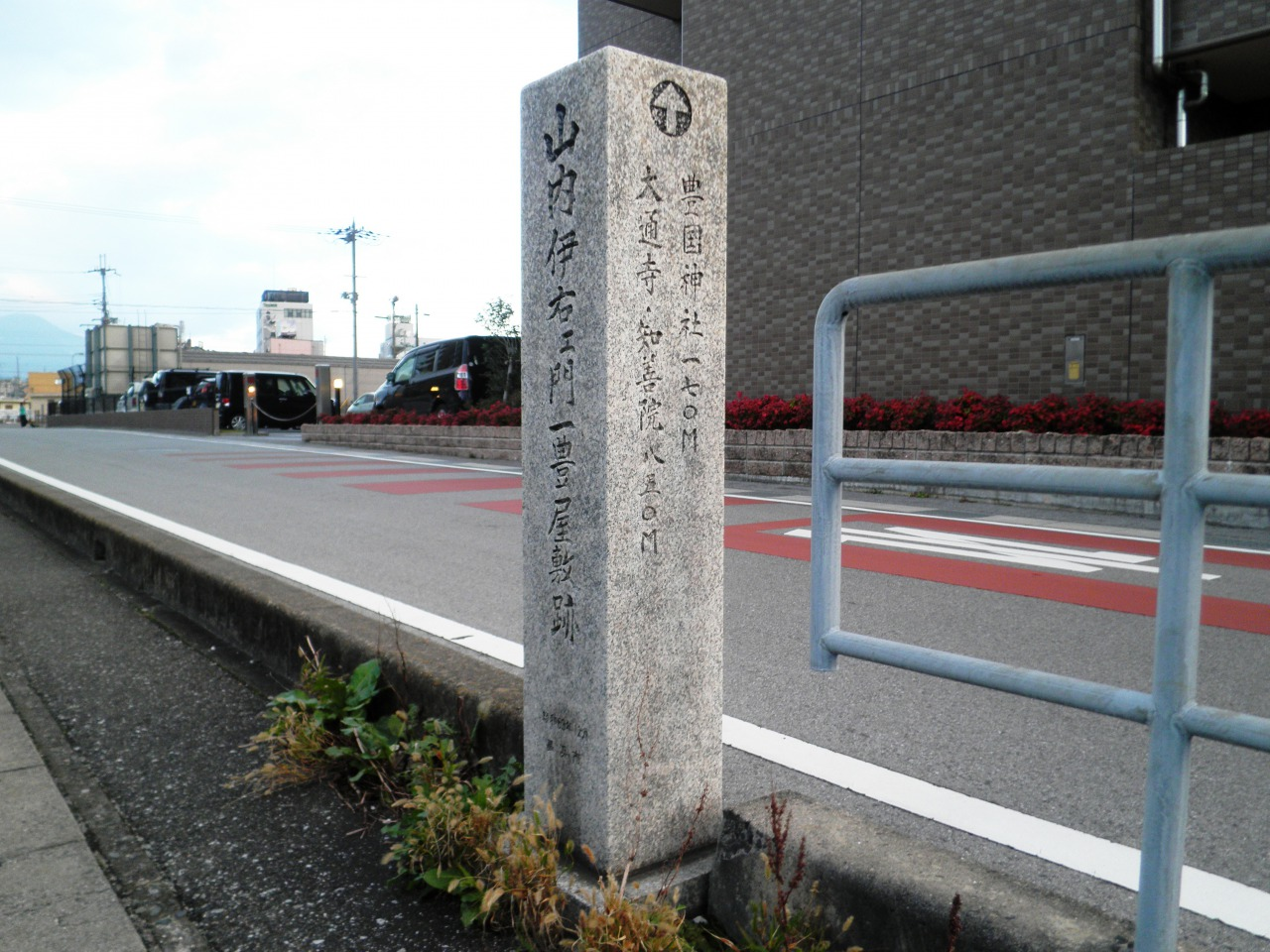 Site of Yamauchi Katsutoyo's Residence